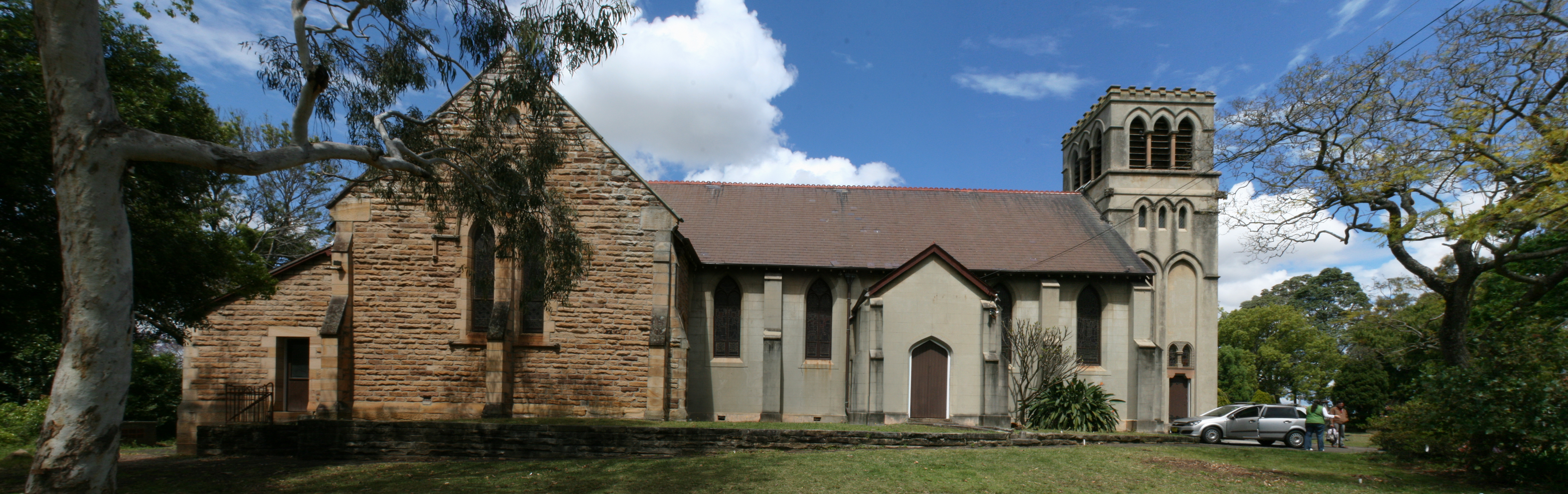 St John the Baptist's Anglican Church, Ashfield, New South Wales (NSW), Australia.